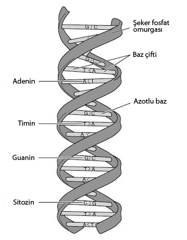 Summary This is Turkish translation of which is taken from: Its English version is also found at : Image Courtesy: National Human Genome Research Institute. Both source images are PD as web site is of American government. Additional information can be found at: In the related page it is clearly stated: "Information on the National Human Genome Research Institute (NHGRI) Web site is in the public domain." As a result my version, which is a translation, is also free of use.